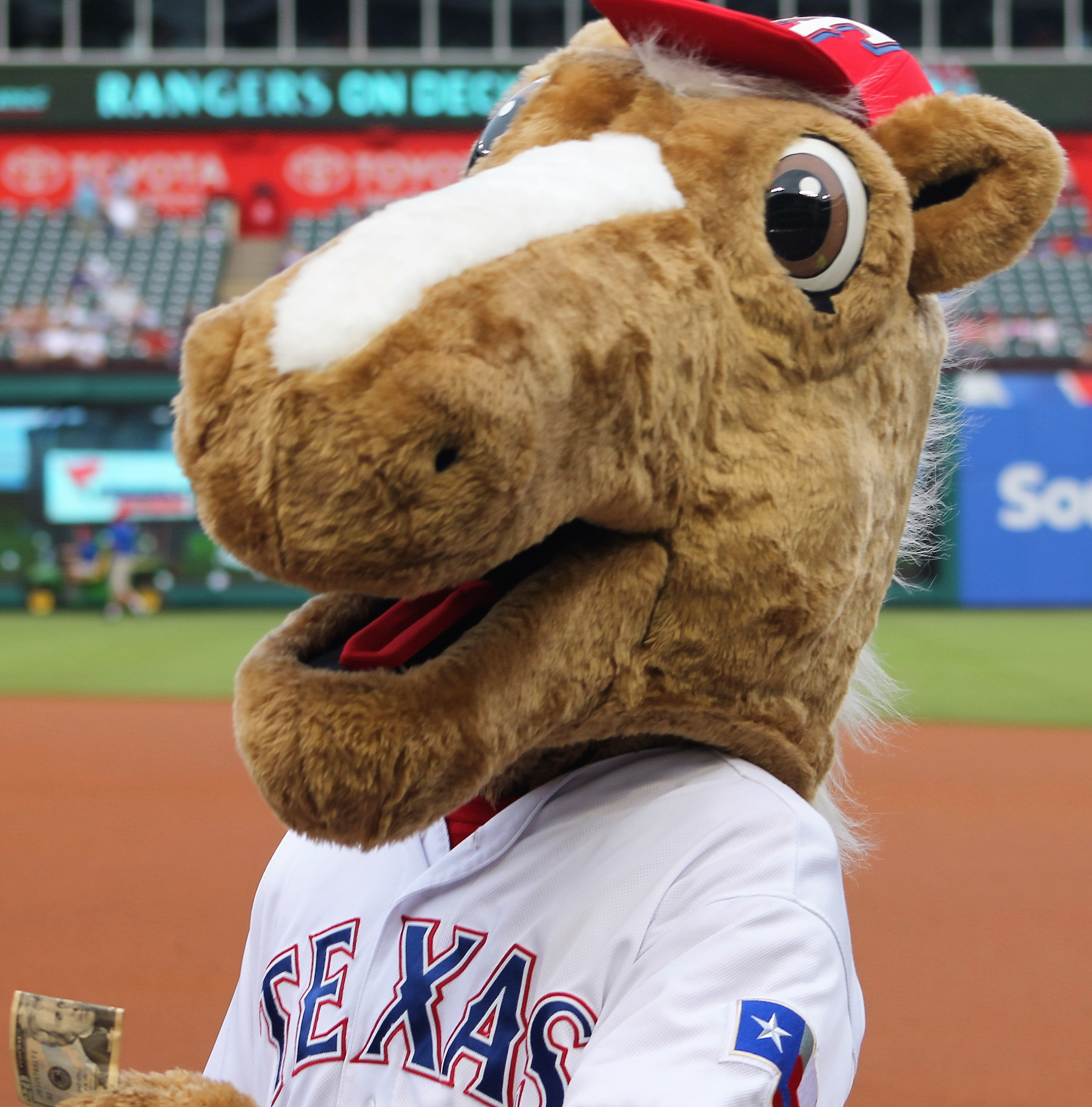 Rangers Captain, the mascot of the Texas Rangers baseball team, pictured in May 2016.